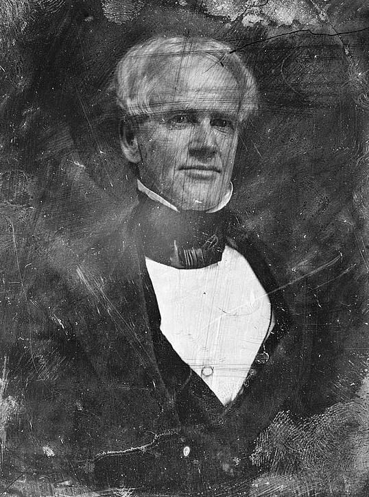 Horace Mann, head-and-shoulders portrait, three-quarters to right. Whig and Free Soil Congressman from Massachusetts, 1848-1853; President of Antioch College.